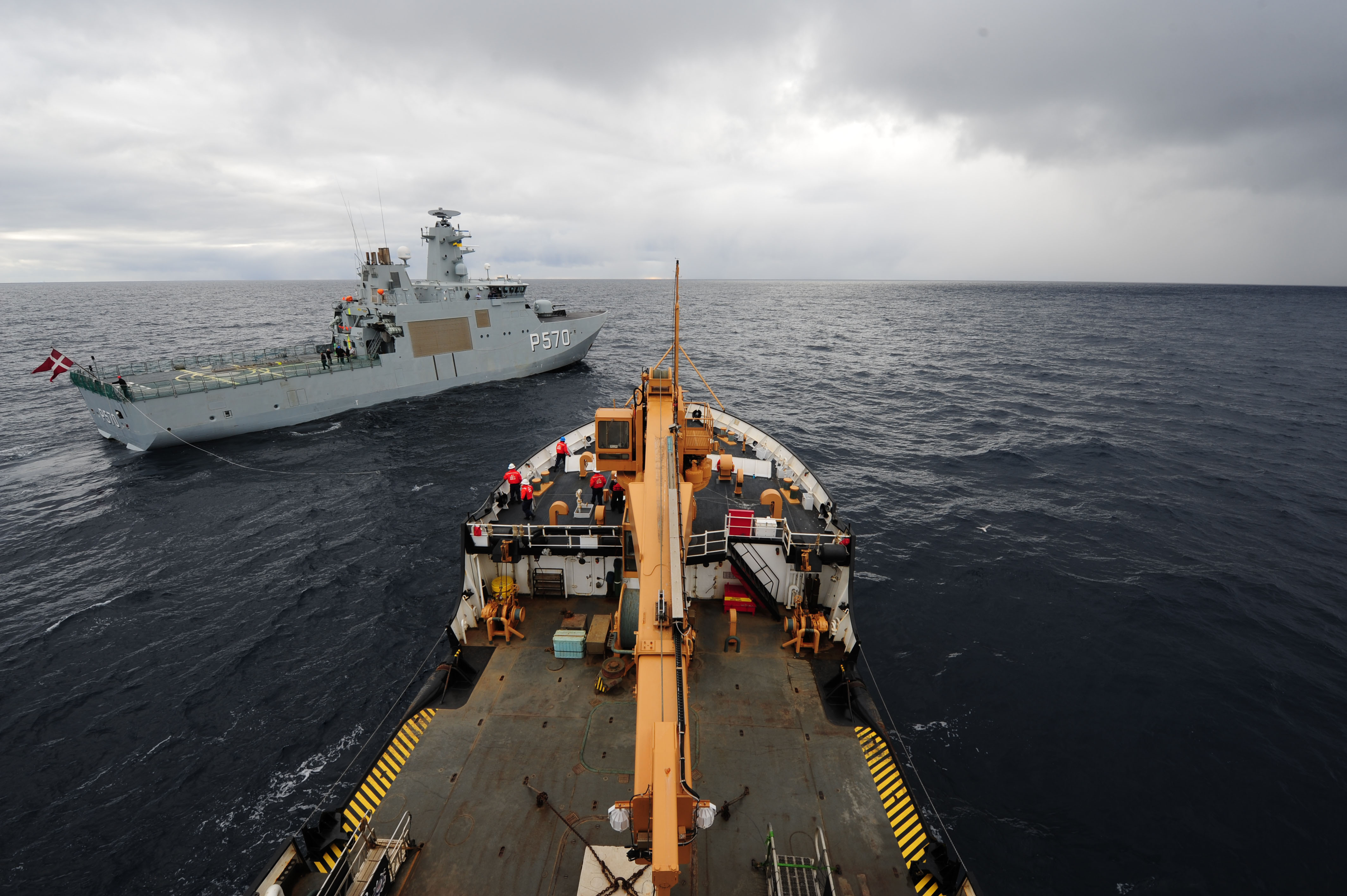 The HMDS Knud Rasmussen, a Royal Danish Navy patrol vessel, transits off the bow of the U.S. Coast Guard Cutter Juniper, homeported in Newport, R.I., during a towing exercise while underway off Greenland's west coast Friday, Sept. 7, 2012. The exercise was conducted as part of an Arctic deployment to enhance interoperability with international forces and to provide the experience of working and responding to incidents in the harsh Arctic environment. U.S. Coast Guard photo by Petty Officer 3rd Class Cynthia Oldham